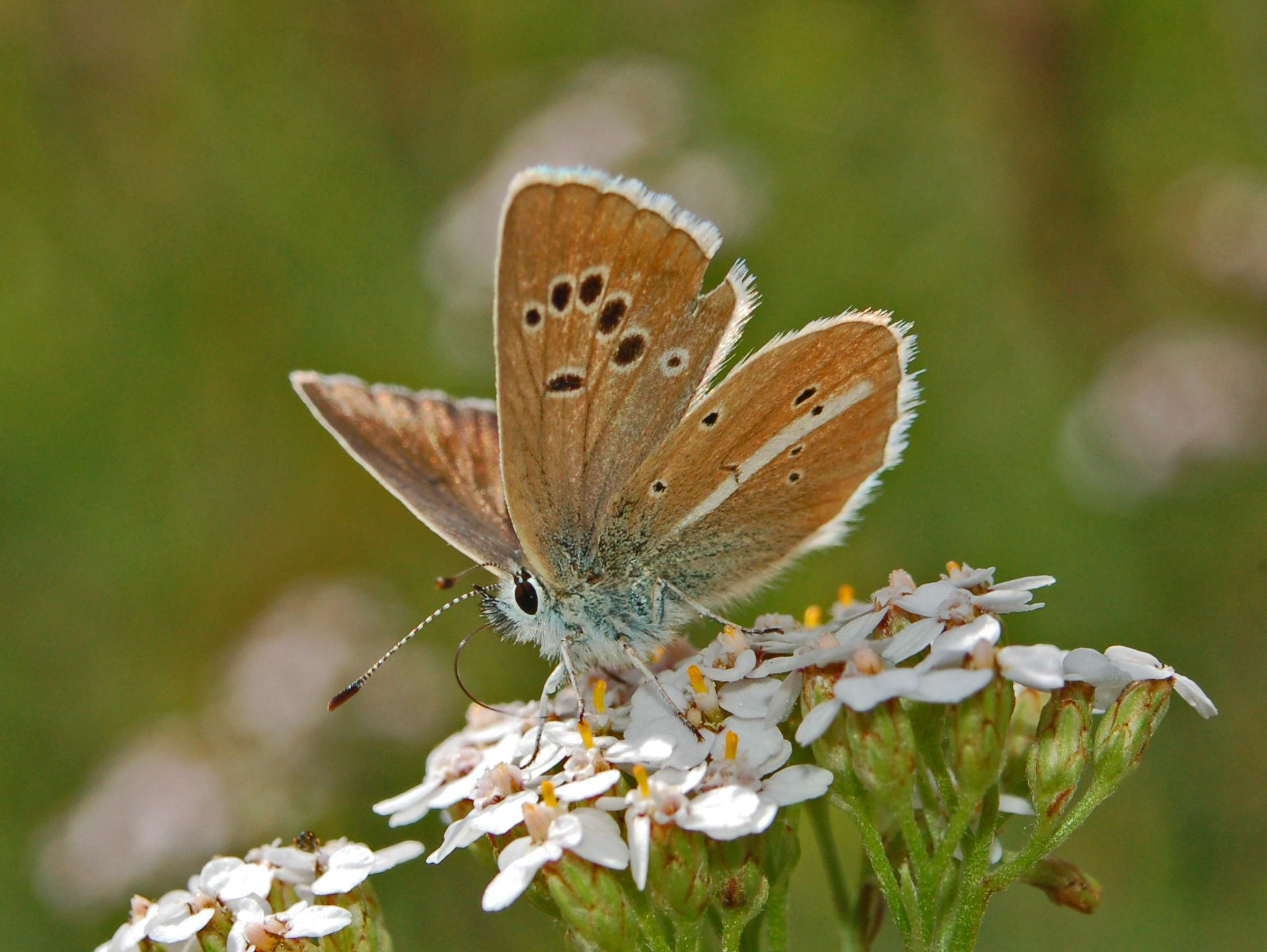 Lycaenidae - Agrodiaetus damon